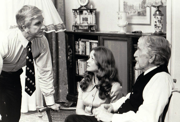 Photo from the television program The Men: Assignment Vienna. Pictured are a prison escapee (Leslie Nielsen) holding a father (Eduard Franz) and his daughter (Belinda Montgomery) hostage in their apartment.